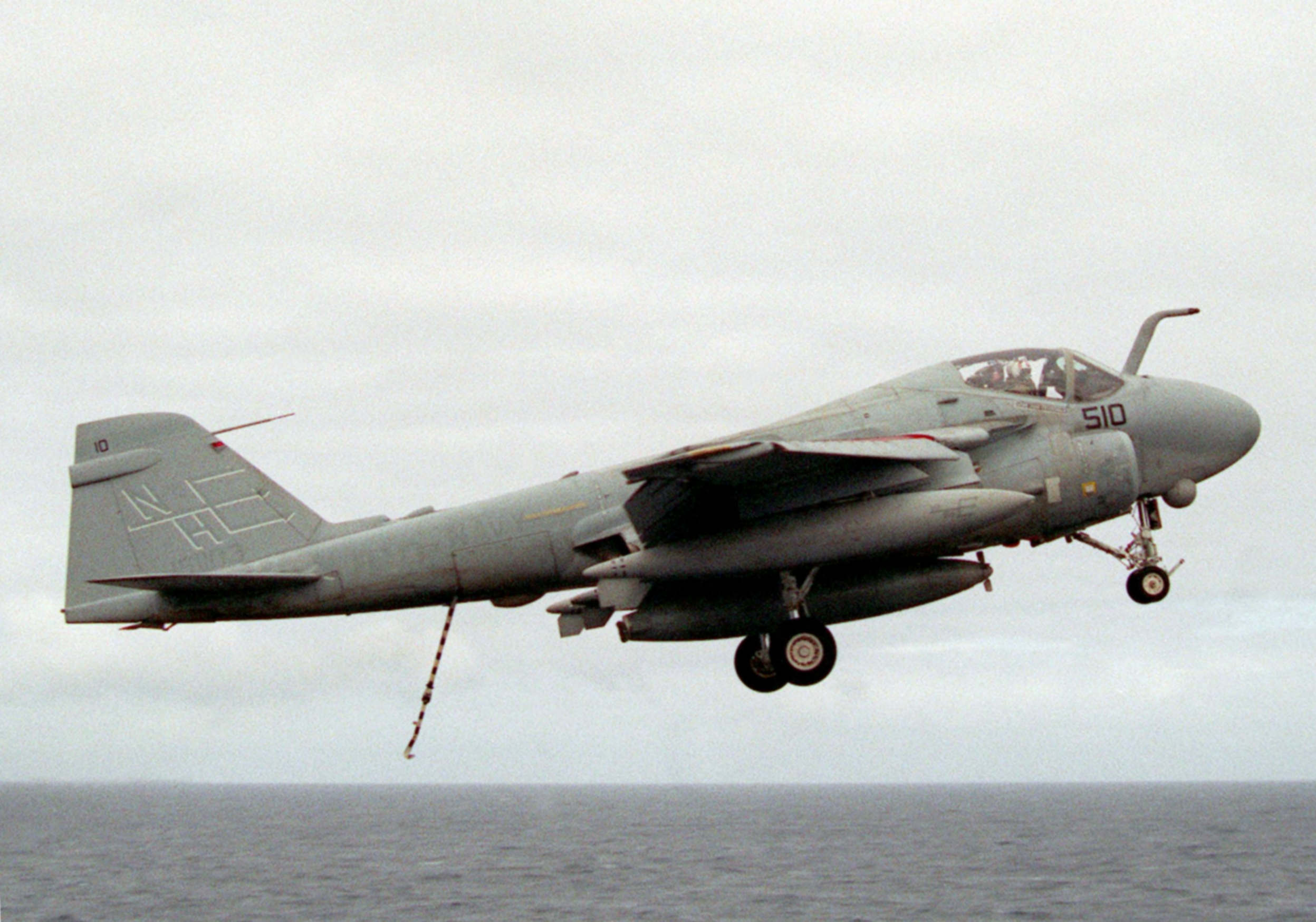 A U.S. Navy Grumman A-6E Intruder (BuNo 161103) from Attack Squadron VA-95 Green Lizards flies off after missing the arresting wire on the flight deck of the nuclear-powered aircraft carrier USS Abraham Lincoln (CVN-72). VA-95 wa assigned to Carrier Air Wing 11 (CVW-11) during the Lincoln's circumnavigation of South America following her shakedown cruise to join the Pacific Fleet.